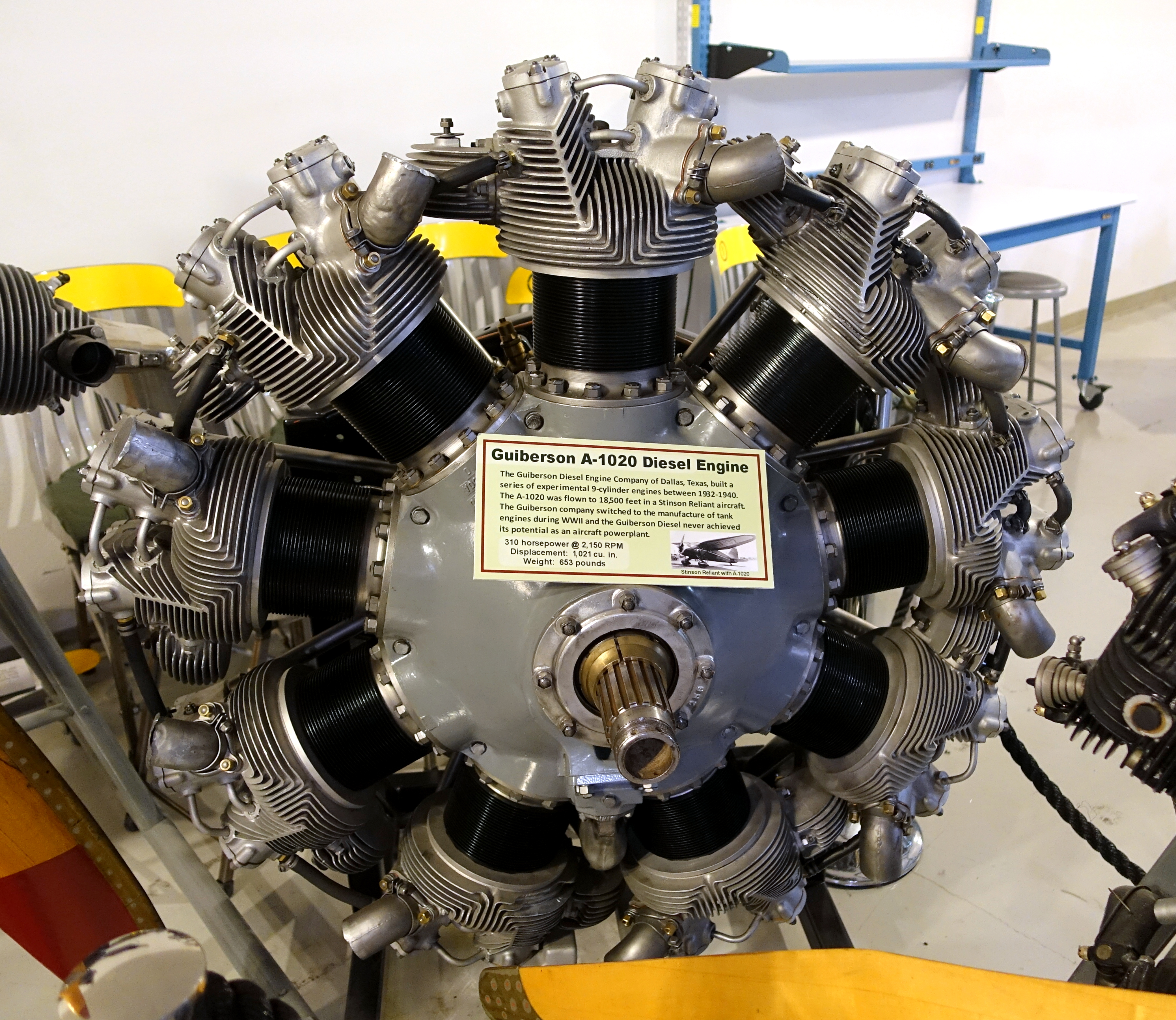 Exhibit in the Hiller Aviation Museum, San Carlos, California, USA.